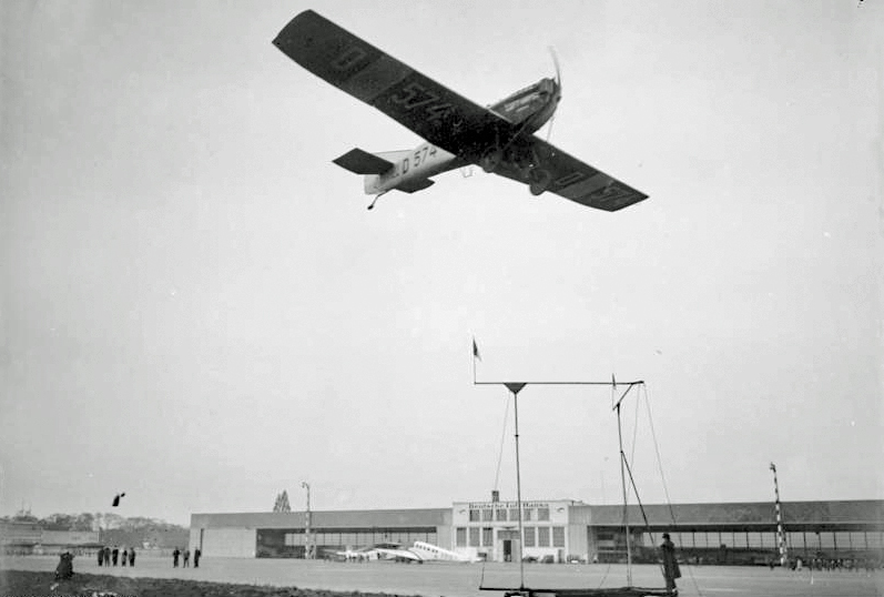 Junkers A20 be, D-574